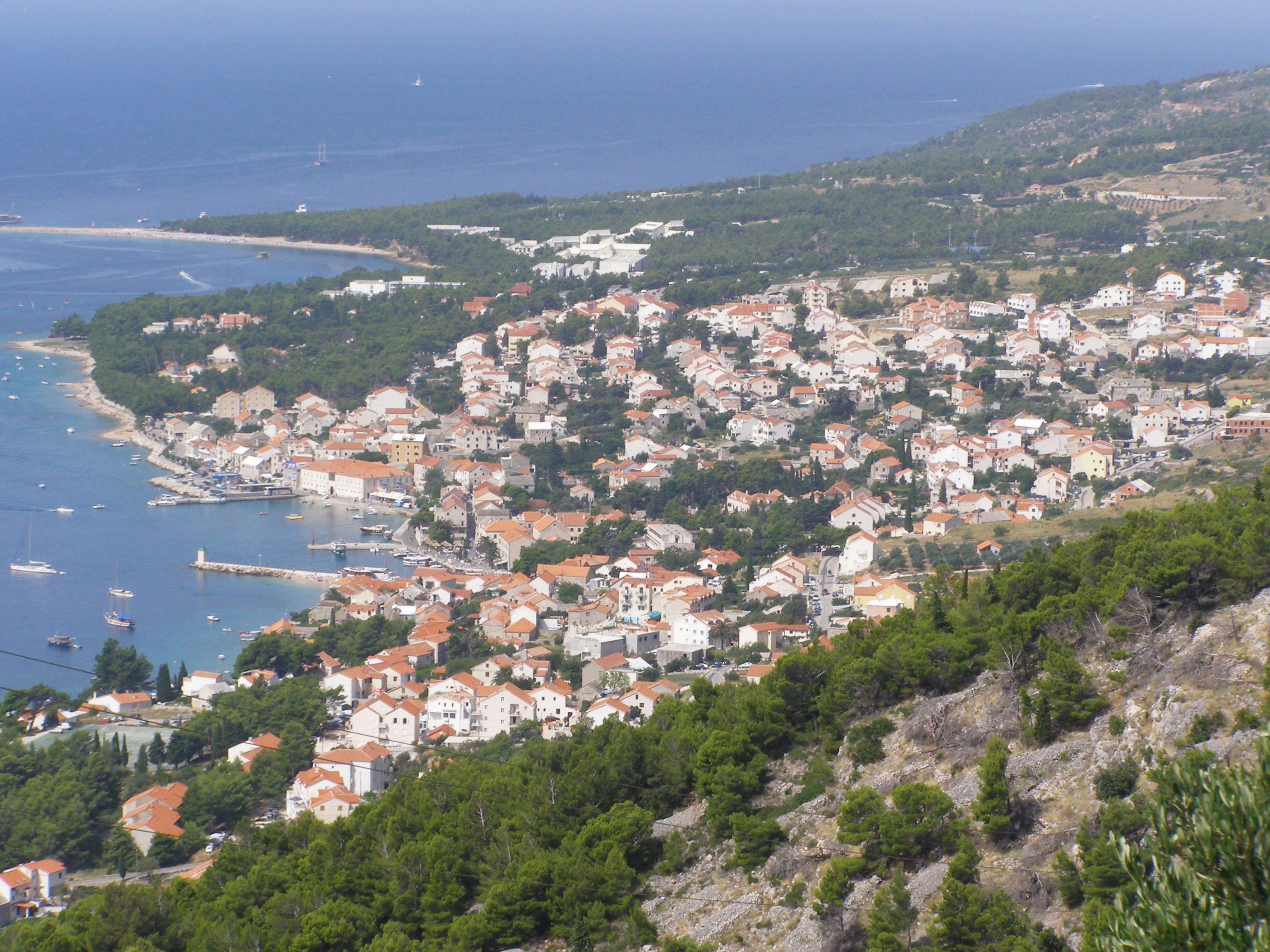 Bol, Brac, Croatia